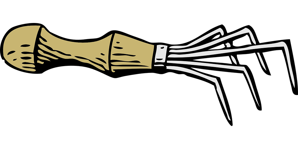 hand rake